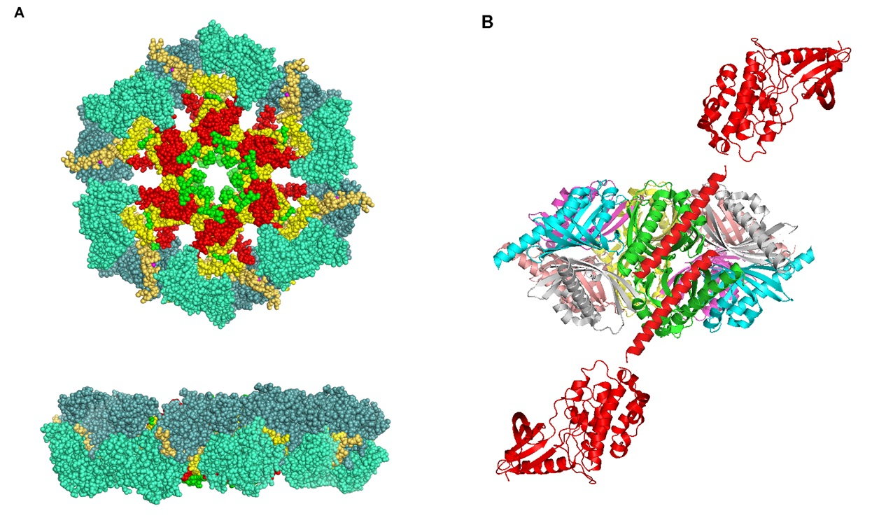 A rendition of the CaMKII holoenzyme in the (A) Closed and the (B) Open conformation